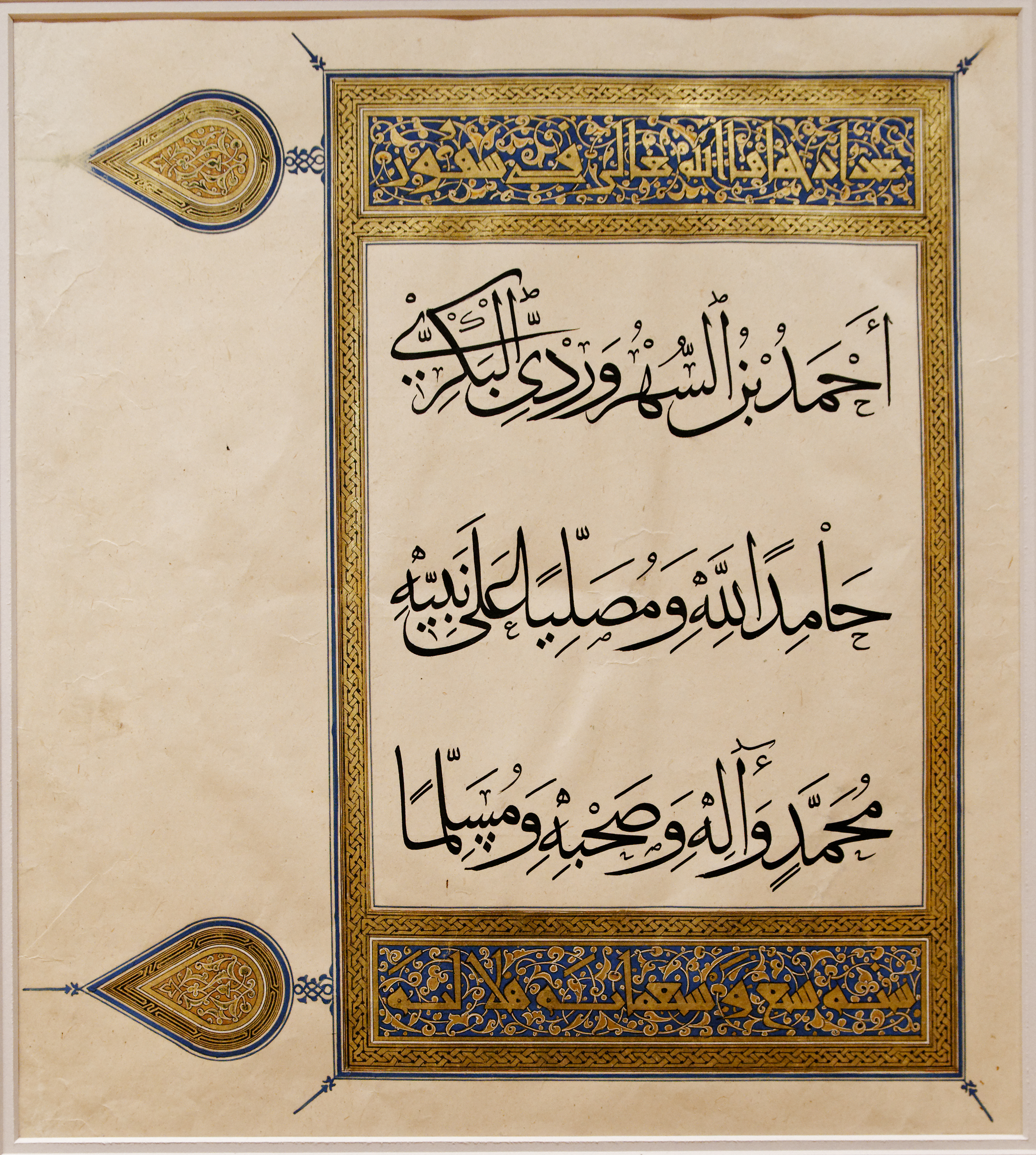 Leaf from a Qu'ran manuscript, Ilkhanid artwork.